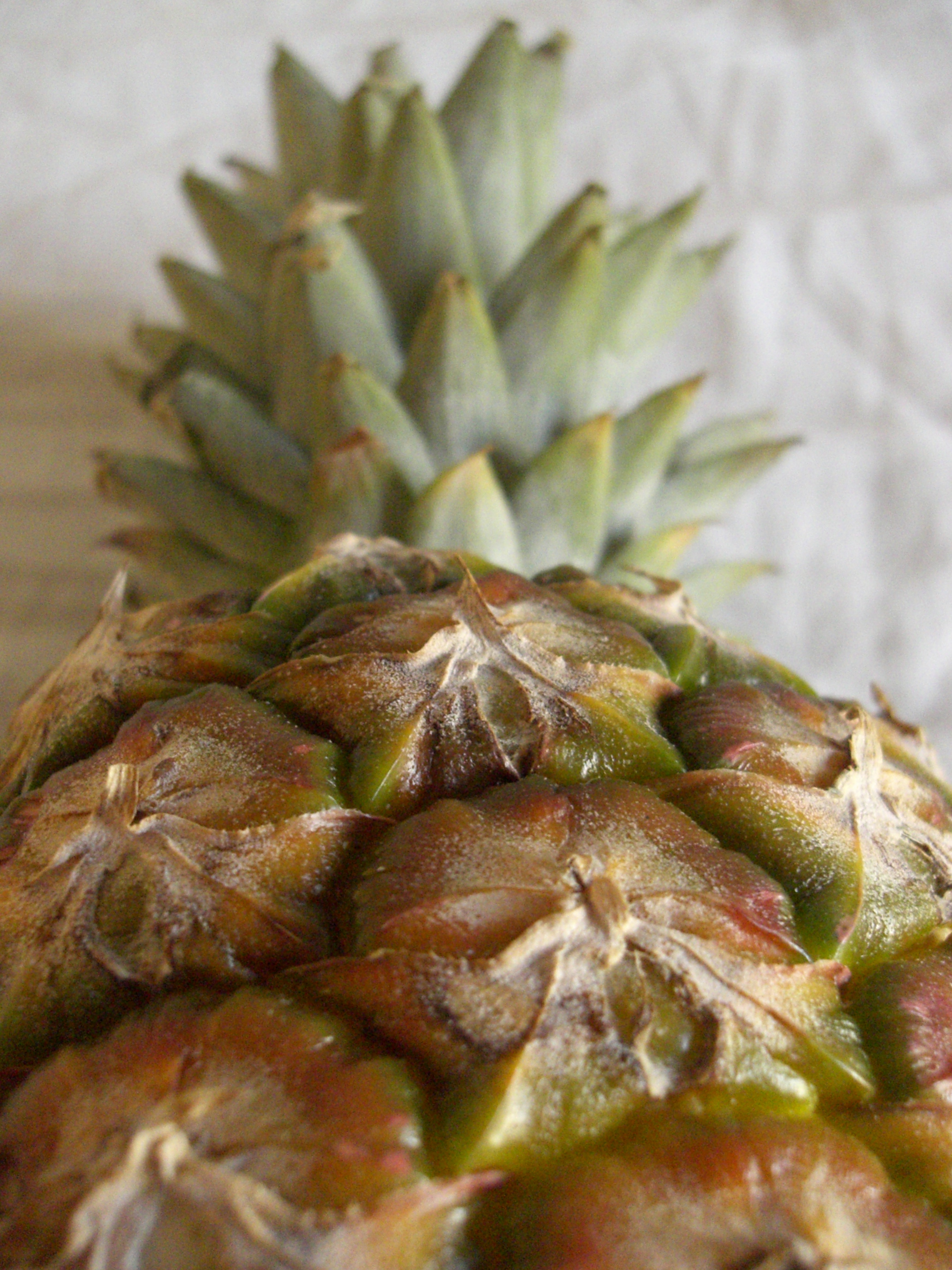 Pineapple fruit - detail of surface